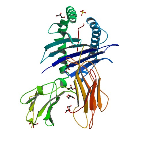 This is the protein structure of HLA-A*02 as determined by Madura, F. et. al. in T-cell receptor specificity maintained by altered thermodynamics in 2013 in the Journal of Biological Chemistry.